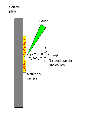 MS Paint diagram of Matrix Assisted Laser Desorption Ionization Drawn by wikimedia user Riticeninjas